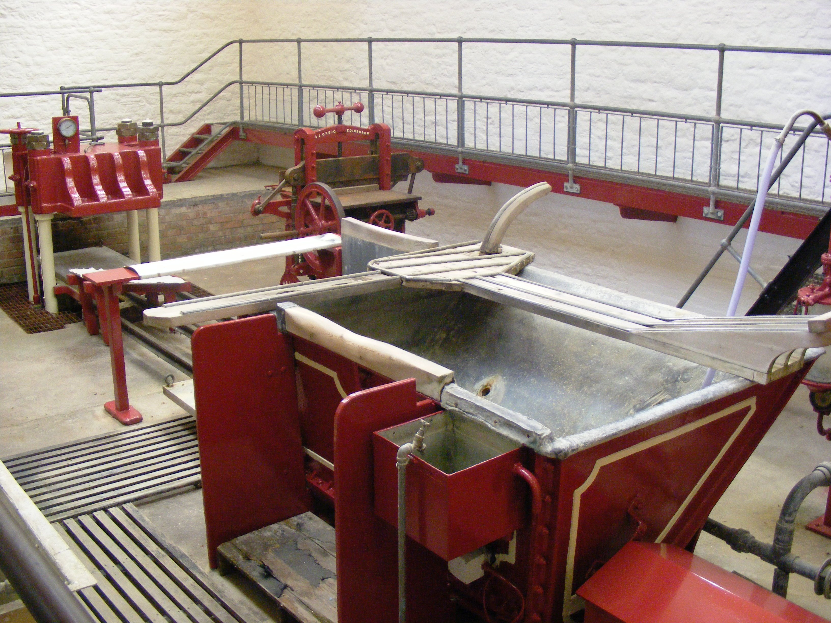 Paper making equipment at Wookey Hole Cave